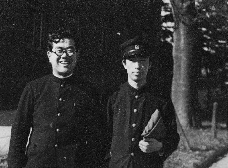 Issei Shiraishi and Kiyoshi Itō, Students of Tokyo Imperial University, posed for photos on 1935.